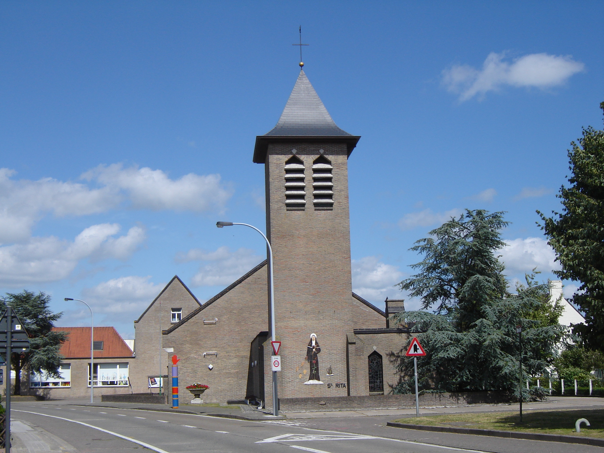 Church in Saint Rita in Den Hoorn. Den Hoorn, Moerkerke, Damme, West Flanders, Belgium